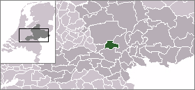 Locator map of Dutch municipalities (LocatieRenkum.png)